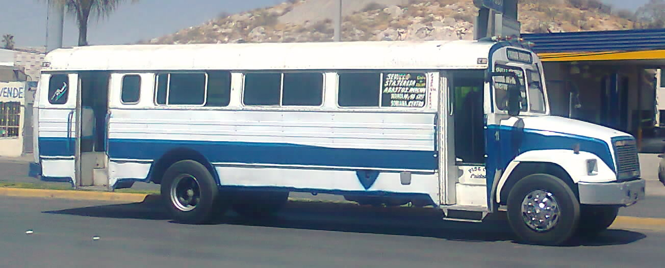 A bus that goes to Parque Hundido suburb in Gomez Palacio, Mexico, with Sotomex™ body and Freightliner™ chassis.